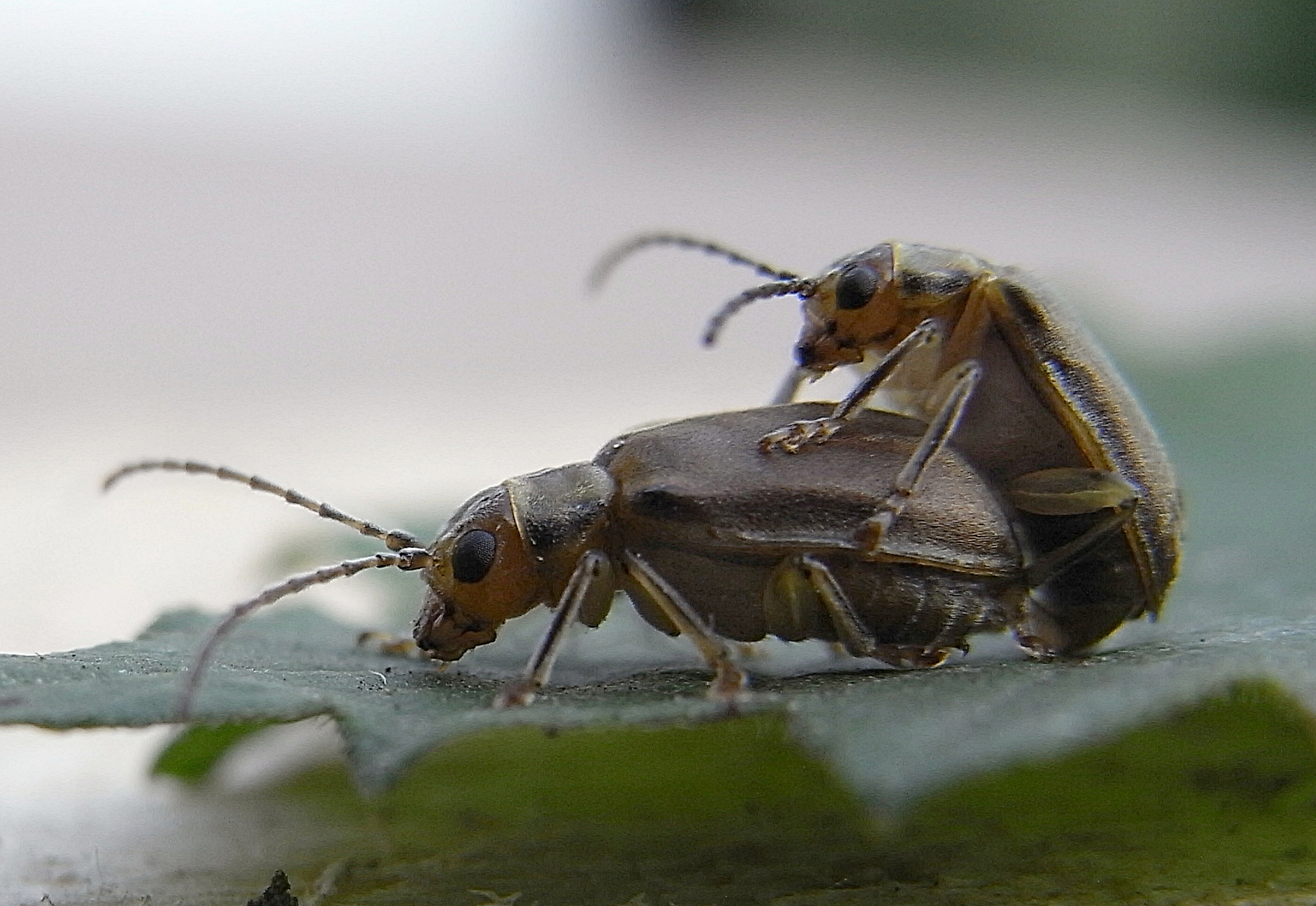 Pyrrhalta viburni from Southern Germany on Viburnum Ricoh R8